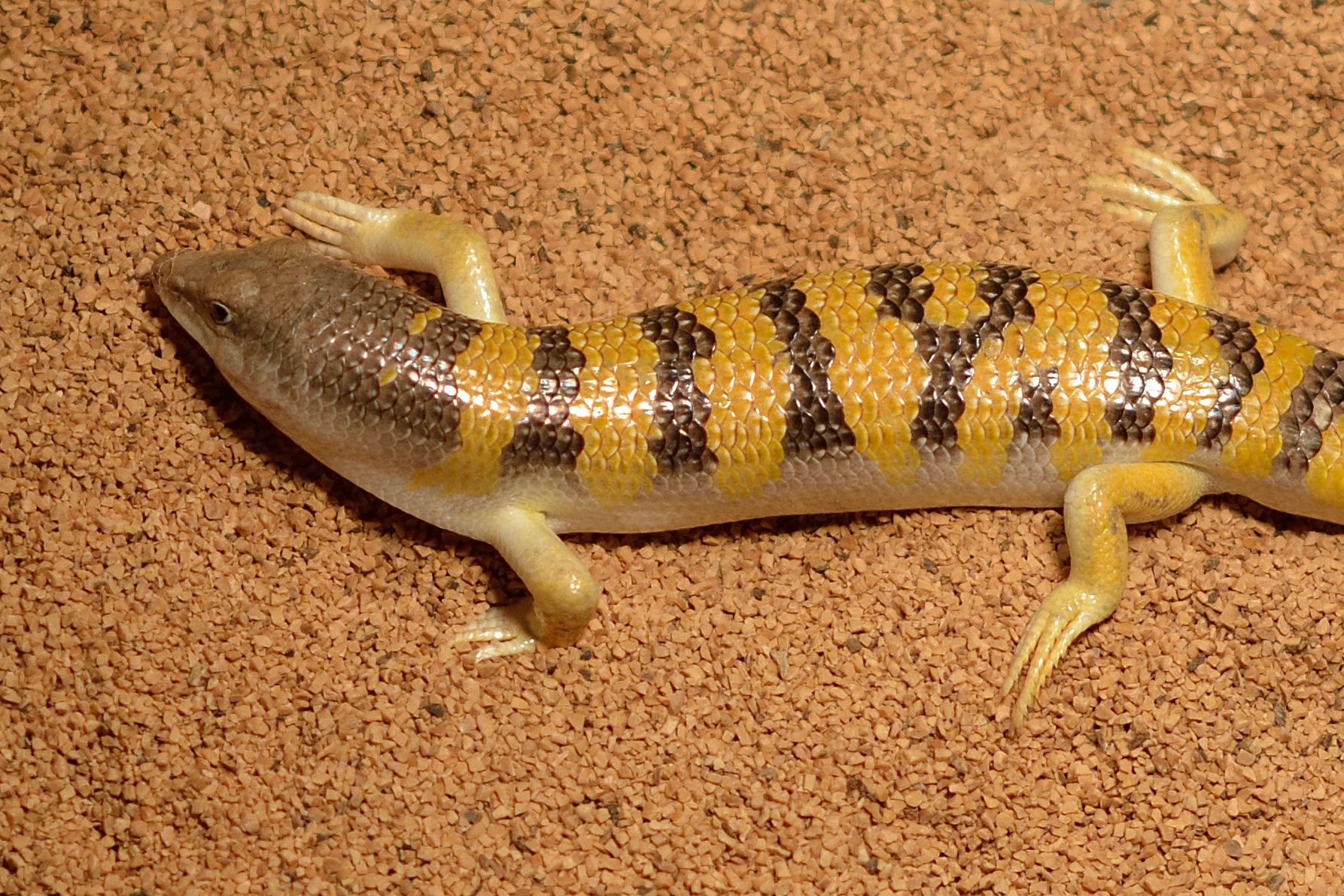 A captive juvenile male sandfish skink (Scincus scincus) on crushed walnut substrate.